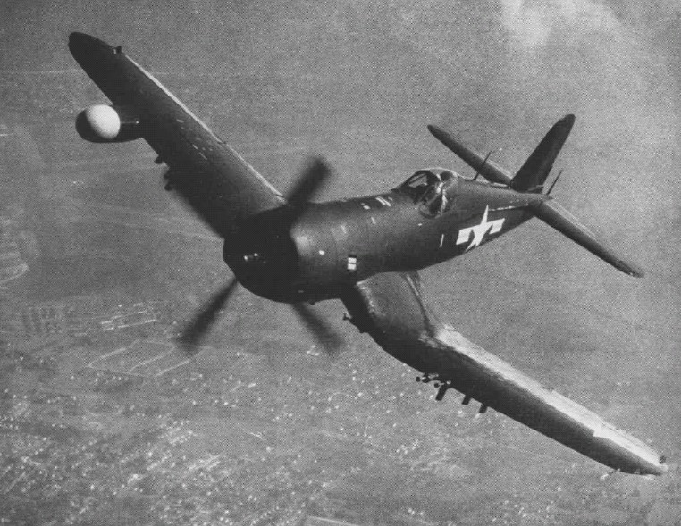 A U.S. Navy Vought F4U-5N Corsair night fighter in flight, circa in 1949.